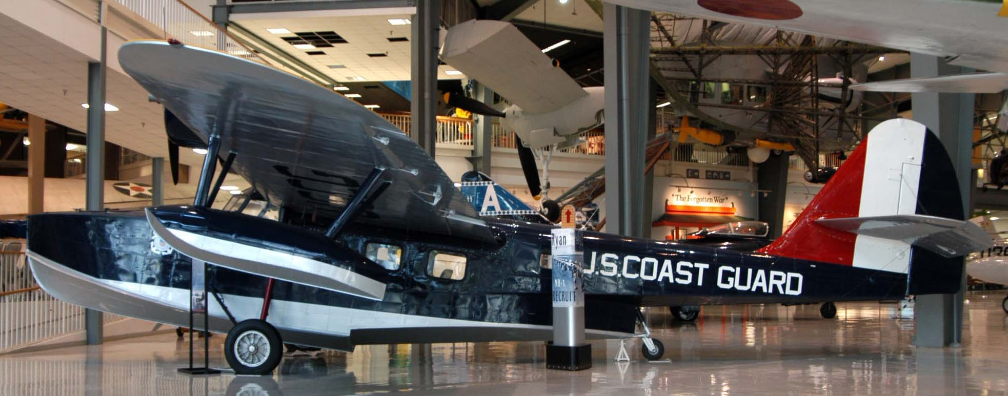 A Douglas Dolphin at the U.S. National Museum of Naval Aviation at Pensacola, Florida (USA). This aircraft was originally purchased in 1934 by William E. Boeing, founder of Boeing Airplane Company, for use as a transport. It was sold in 1941 and subsequently flew with the Civil Aviation Administration and Alaska Airlines before Dr. Colgate W. Darden, III, purchased it. Darden's father, a U.S. congressman and Governor of the Commonwealth of Virginia, was Naval Aviator Number 871. Darden later donated the aircraft to the museum. It is painted as a U.S. Coast Guard RD-4.